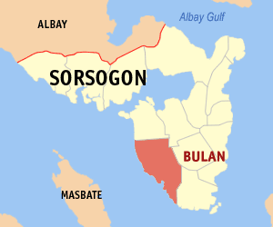 Map of Sorsogon showing the location of Bulan